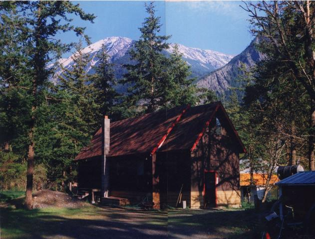 My former house (private home) in Seton Portage, British Columbia. Photo taken by poster (dtaw2001) in summer 990. Released to public domain.